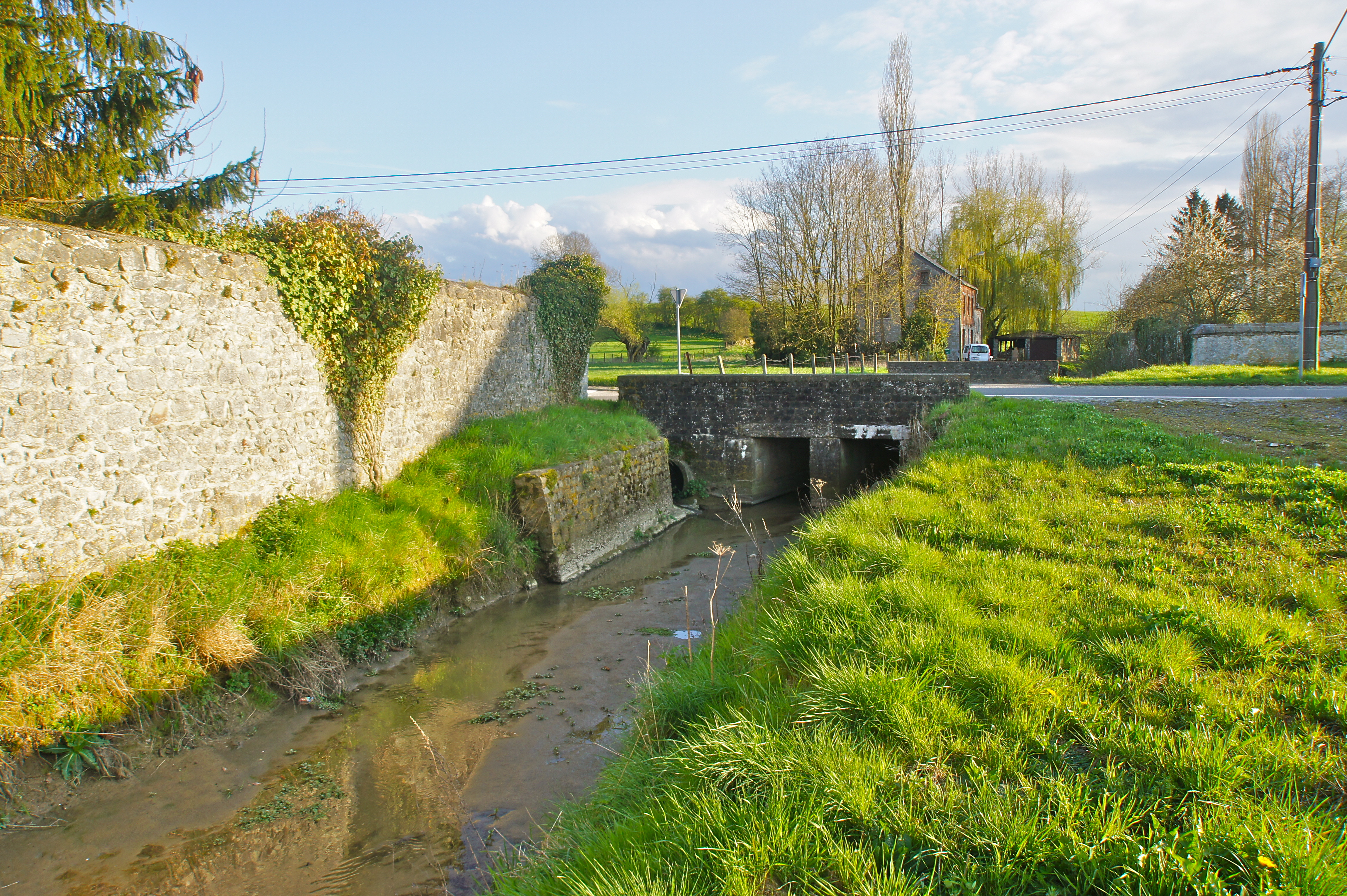 Merbes-le-Château (Fontaine-Valmont), Belgium: Bridge over the Ruisseau de la Fontaine Claus passes under an abatial farm